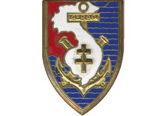 Regimental badge of the 4th Marine Artillery Regiment.